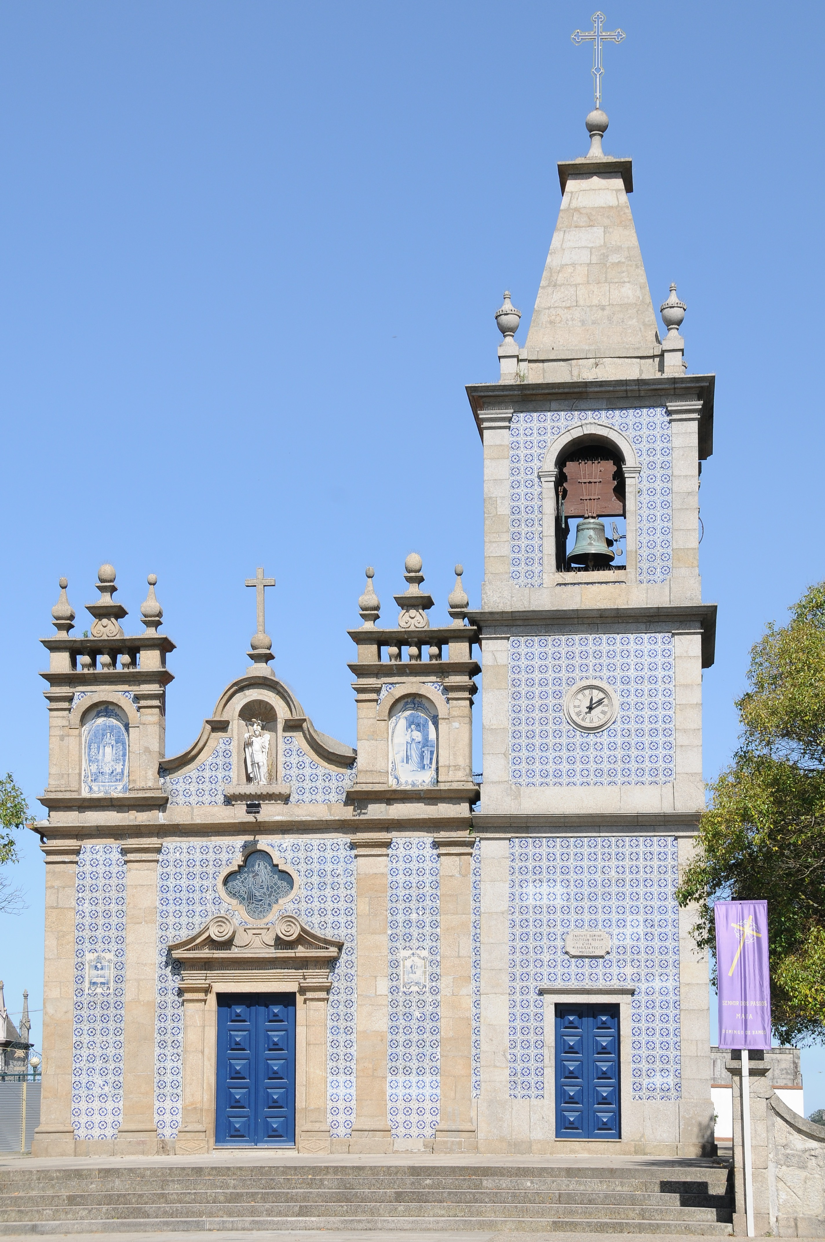 Maia Church, in Maia, Portugal.